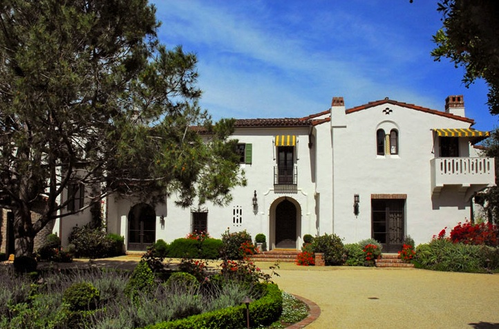 El Sueno designed by Kevin A. Clark.